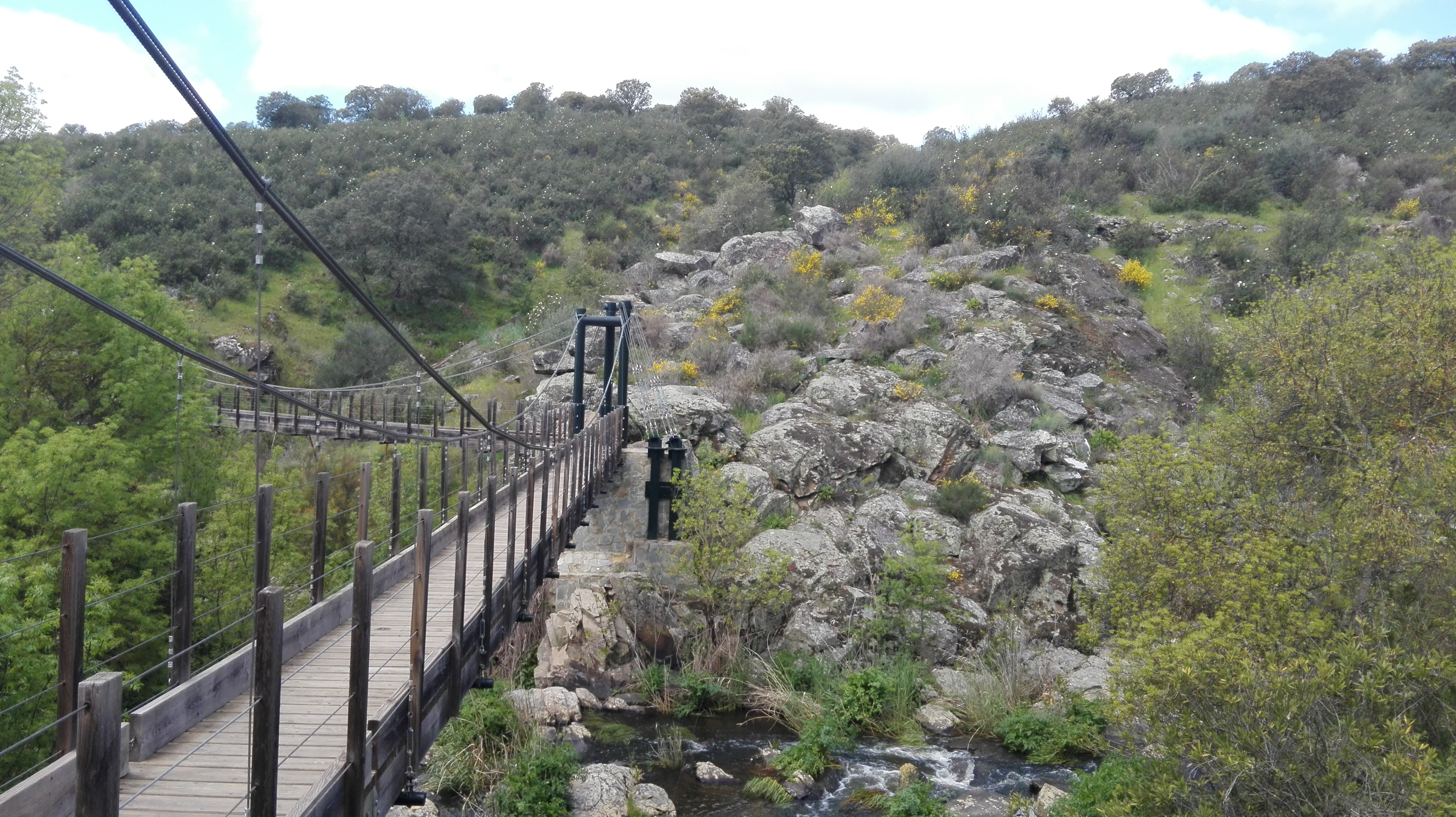 Puente y entorno natural del Yacimiento Celta de Capote